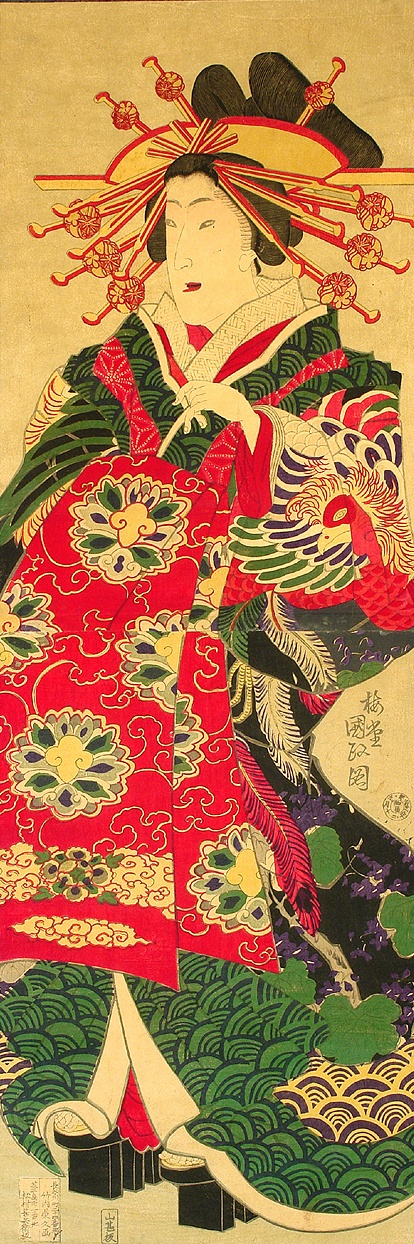 woodblock print by Utagawa Kunisada III, bijin, vertical diptych, 1878